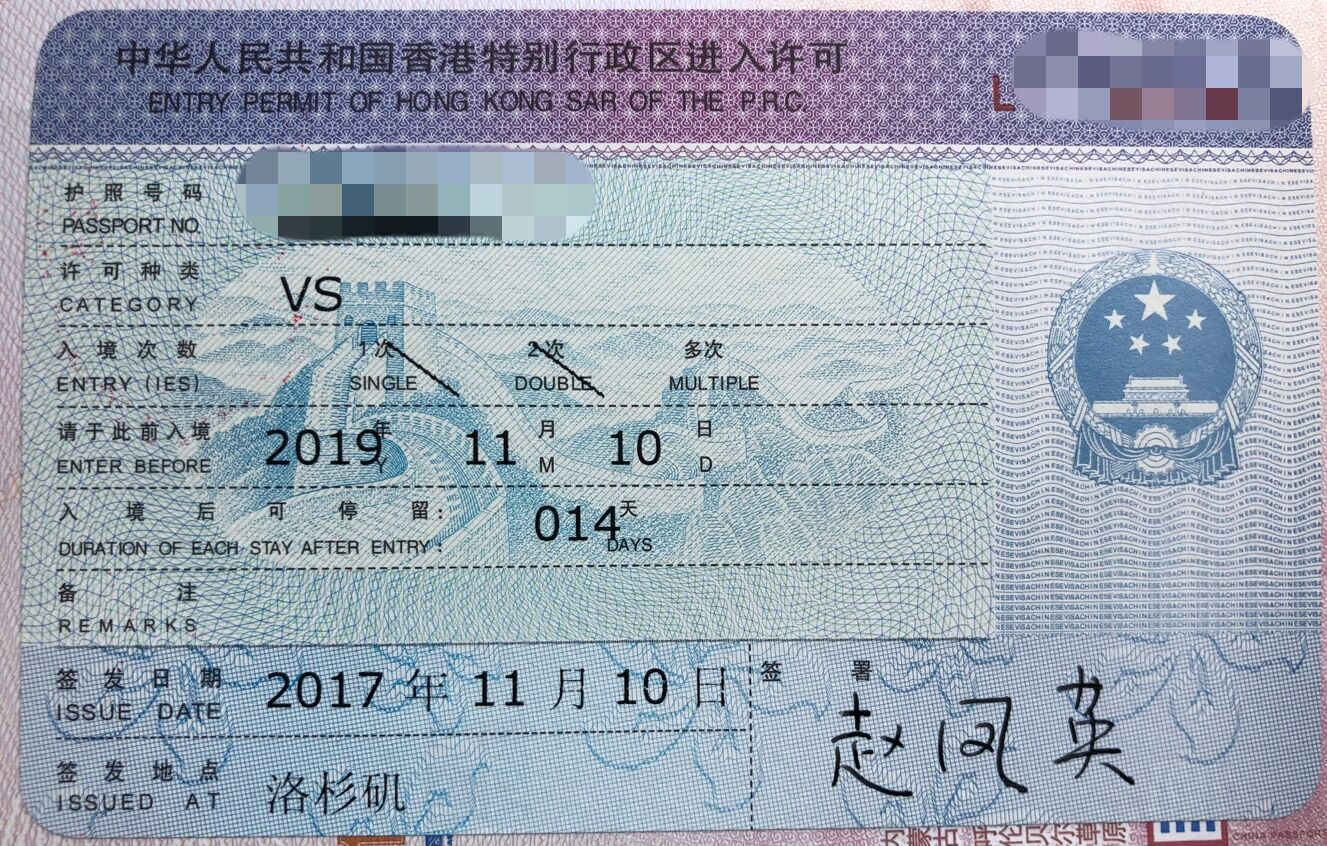 Hong Kong SAR Entry Permit for Chinese nationals who have a Chinese passport and live/study/work abroad.